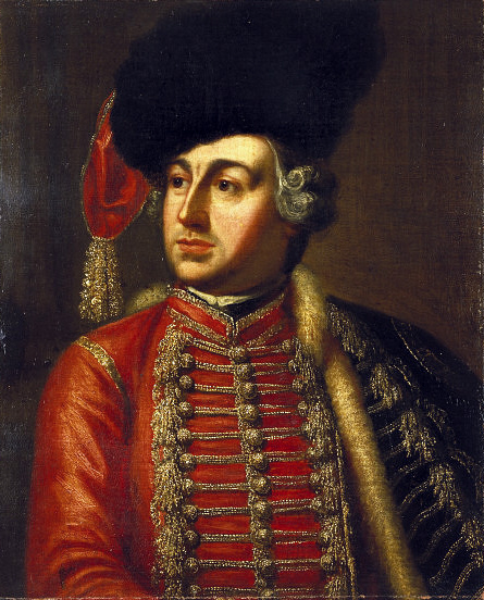 David Garrick as Tancred in "Tancred and Sigismunda" by James Thomson Victoria and Albert Museum, London, museum no. DYCE.14 (Link)